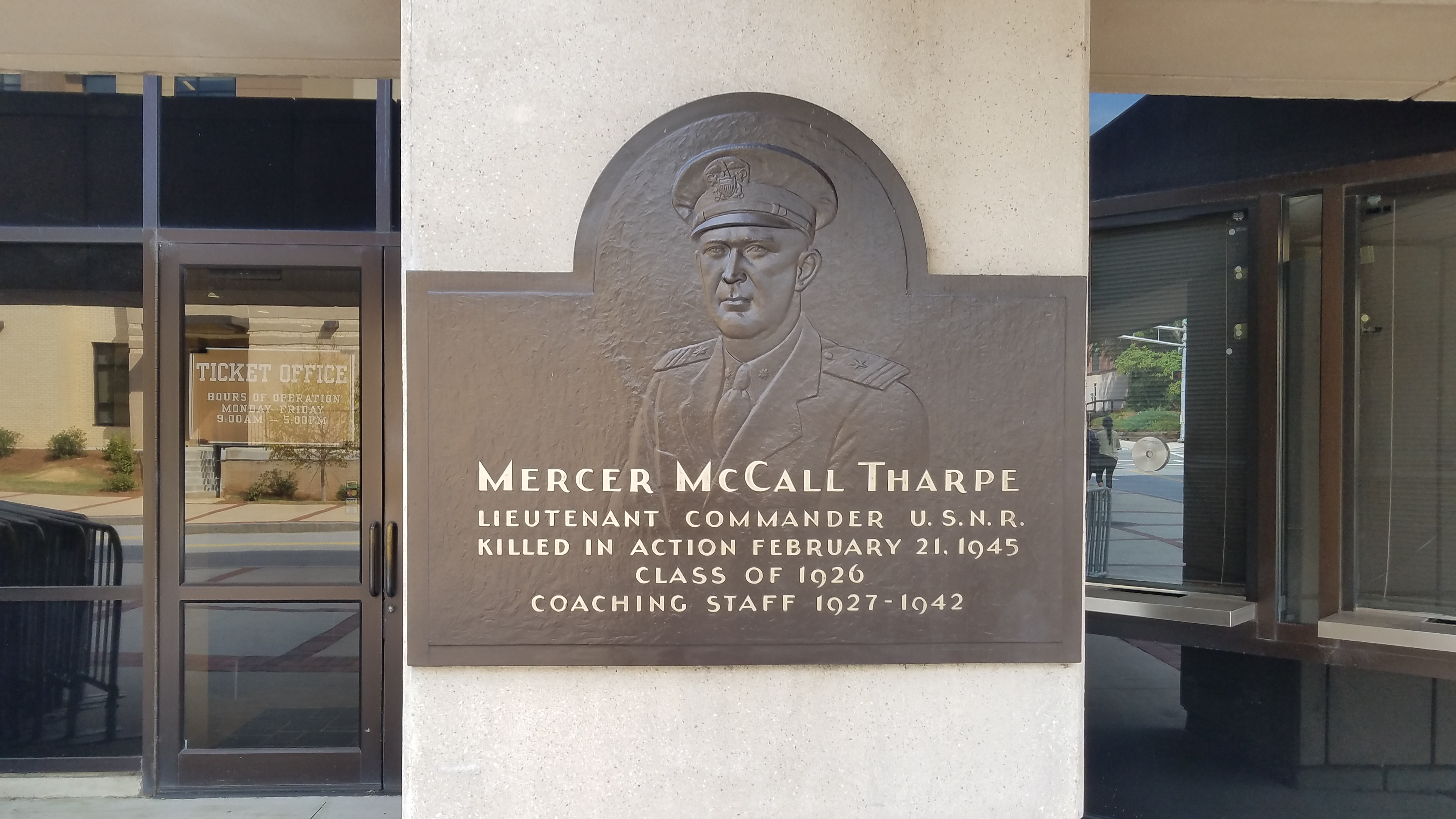 Plaque near Bobby Dodd Stadium commemorating Mercer McCall Tharpe.